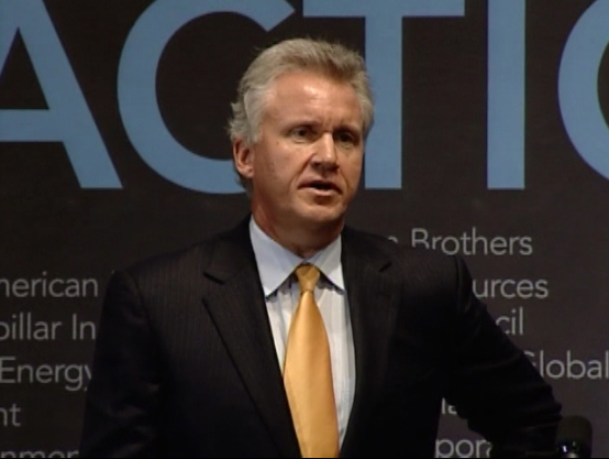 Jeffrey Immelt, Chairman and CEO of General Electric speaks at a U.S. Climate Action Partnership event.